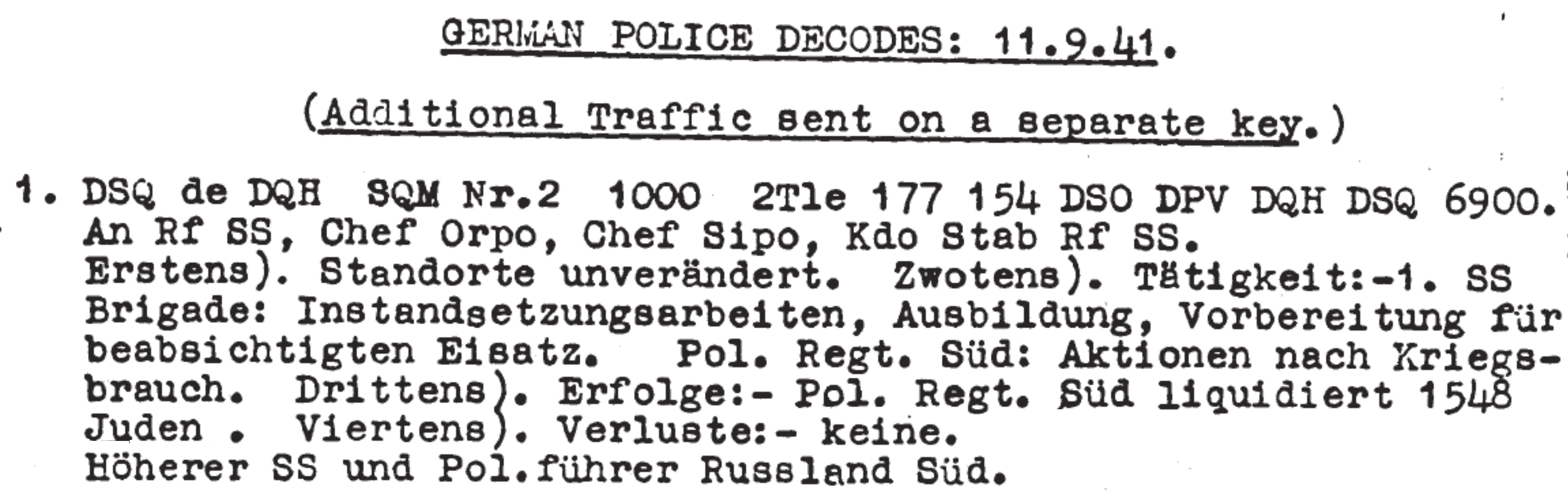 This is a decrypted message from a Nazi HSSPF (High SS and Police Leader) of section "Russland Sued" (South Russia), describing the 'liquidation' of jewish people. It was sent September 11 1941. - To: the Reichsführer SS (Rf SS, Heinrich Himmler), the Chief of the Order Police (Chef Ordnungspolizei Kurt Daluege), the Chief of the Security Police (Chef Sicherheitspolizei Reinhard Heydrich) and the commanding staff of Reichsführer SS (Kdo Stab Rf SS). 1) location unshifted. – 2) normal military activities of 1st SS-Brig. – 3) success: Police Reg. South killed 1548 jews. – 4) losses: no. - From: Higher SS and Police Leader - South Russia (HSSPF Russland Süd, Friedrich Jeckeln). - xx